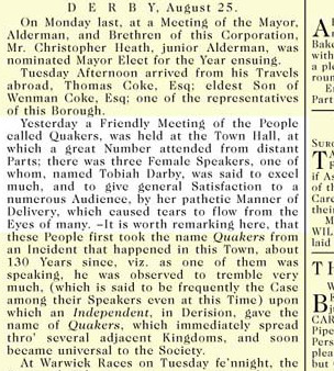 Abiah Darby named as Tobiah (sic) in Derby Mercury. 'Derby Mercury', 19th - 26th August, 1774. The Town Hall, Derby. ex. Derby Local Studies Library